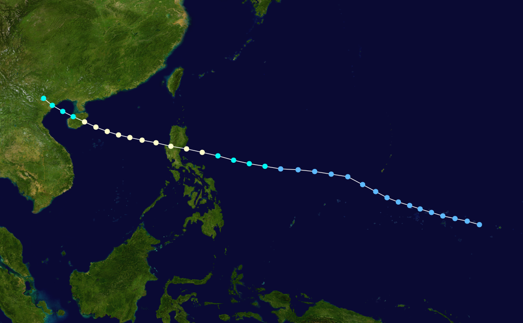 Typhoon Eli 1992 track. Uses the color scheme from the Saffir-Simpson Hurricane Scale.